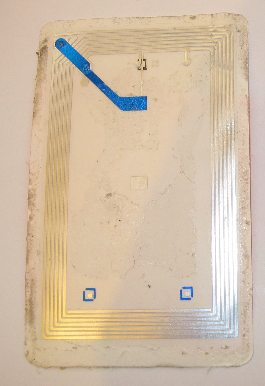 Inside and front of a so-called OV-chipkaart with the RFID chip and antenna clearly visible